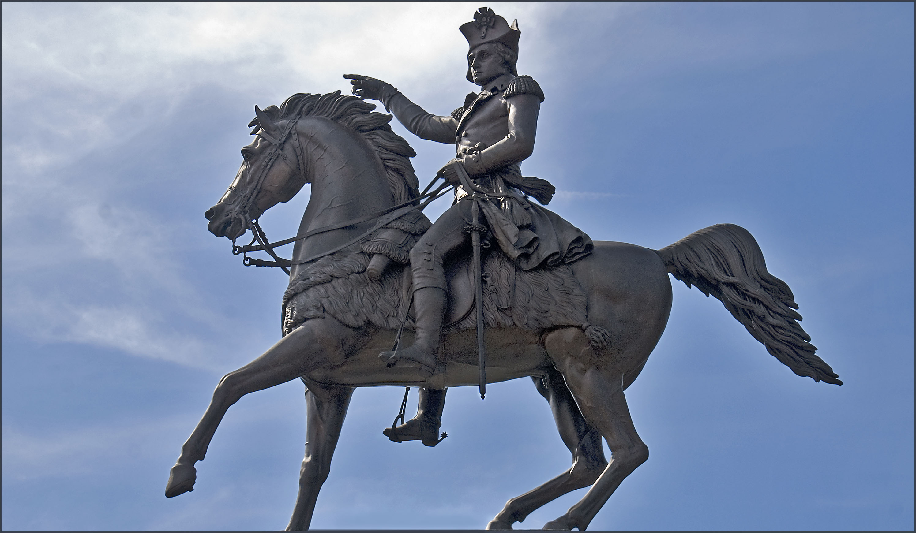 George Washington Equestrian Monument near the Capitol in Richmond, Virginia. "Image by Ron Cogswell on June 9, 2012, using a Nikon D80 and minor Photoshop effects. DSC_0235" - from original caption at Flickr